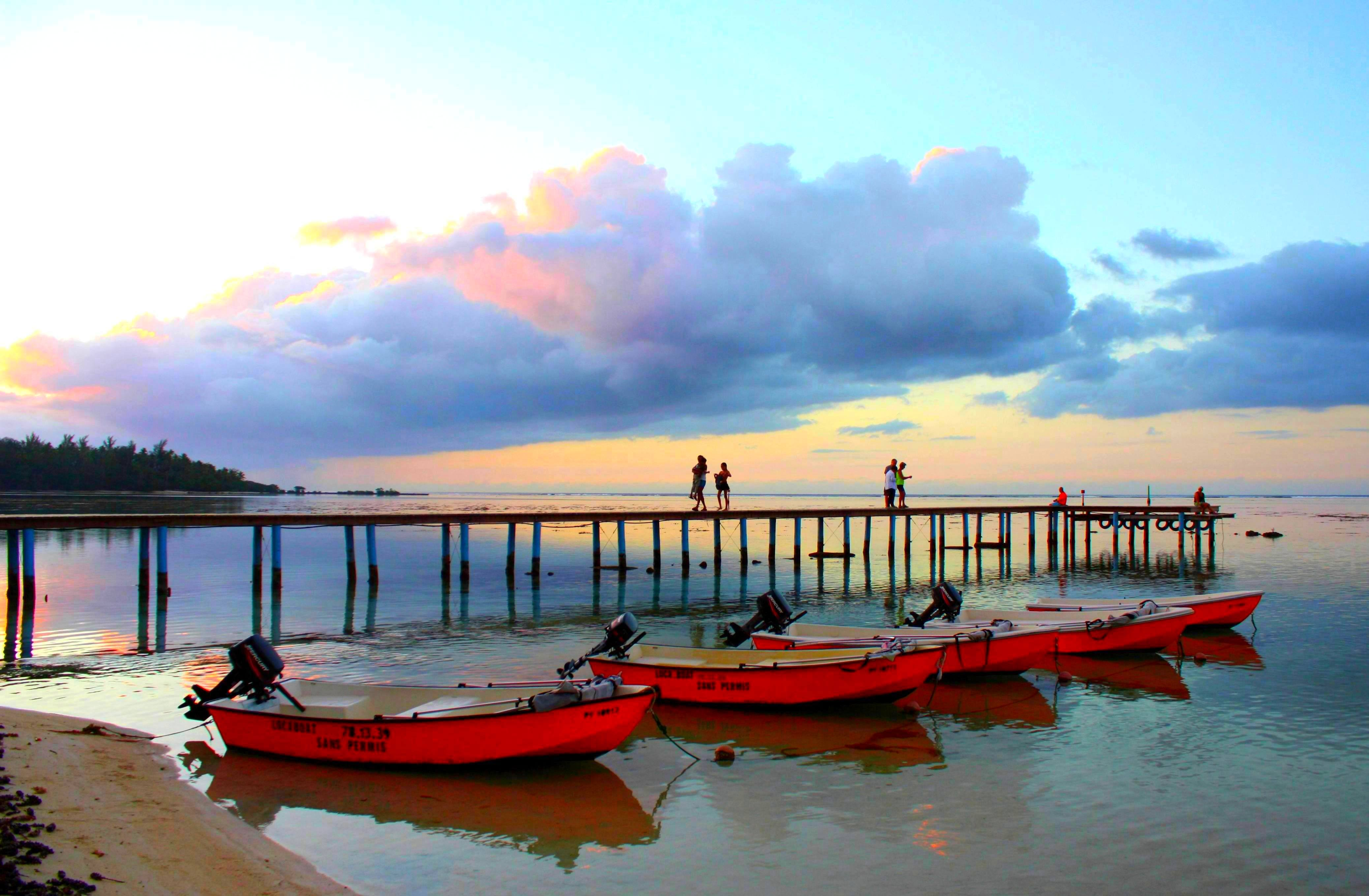 DSC0057/French Polynésia/ Mooréa Island/Tiahura Tipanier's Pier at sunset